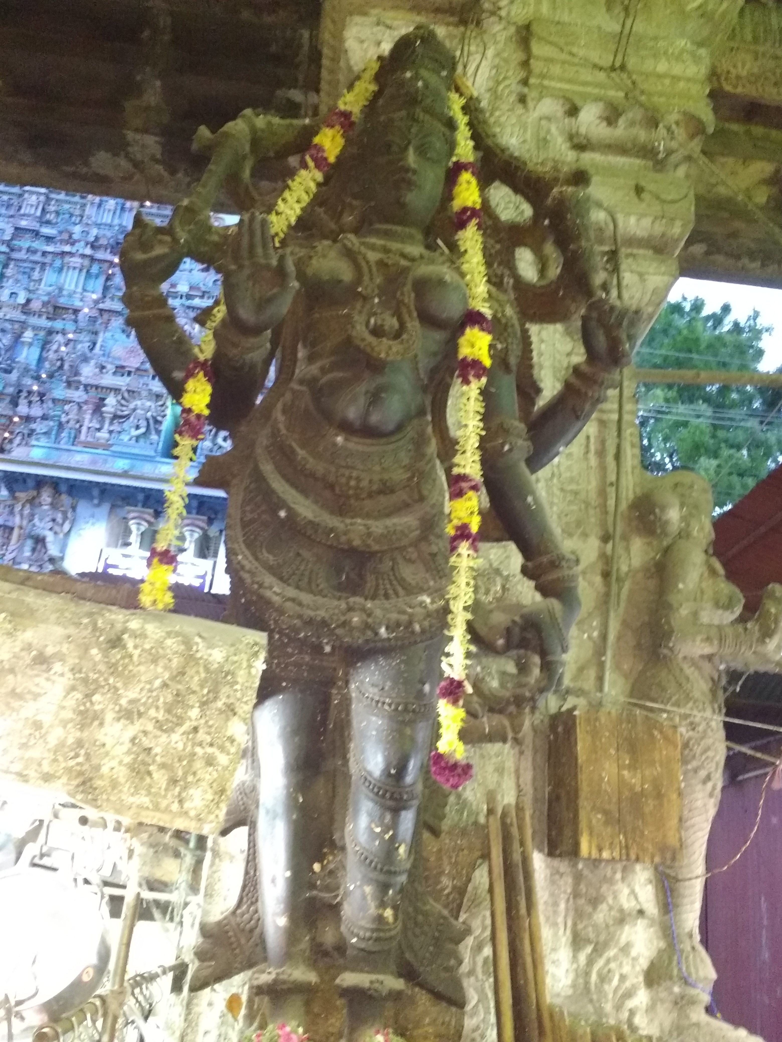 Arthanareeshwar, Lord Shiva and Parvati in body